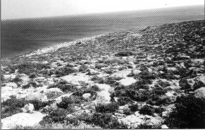 Flora on the desolate island